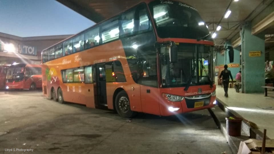 Pabama double decker in Cagayan de Oro. Picture by Lloyd Saladaga.